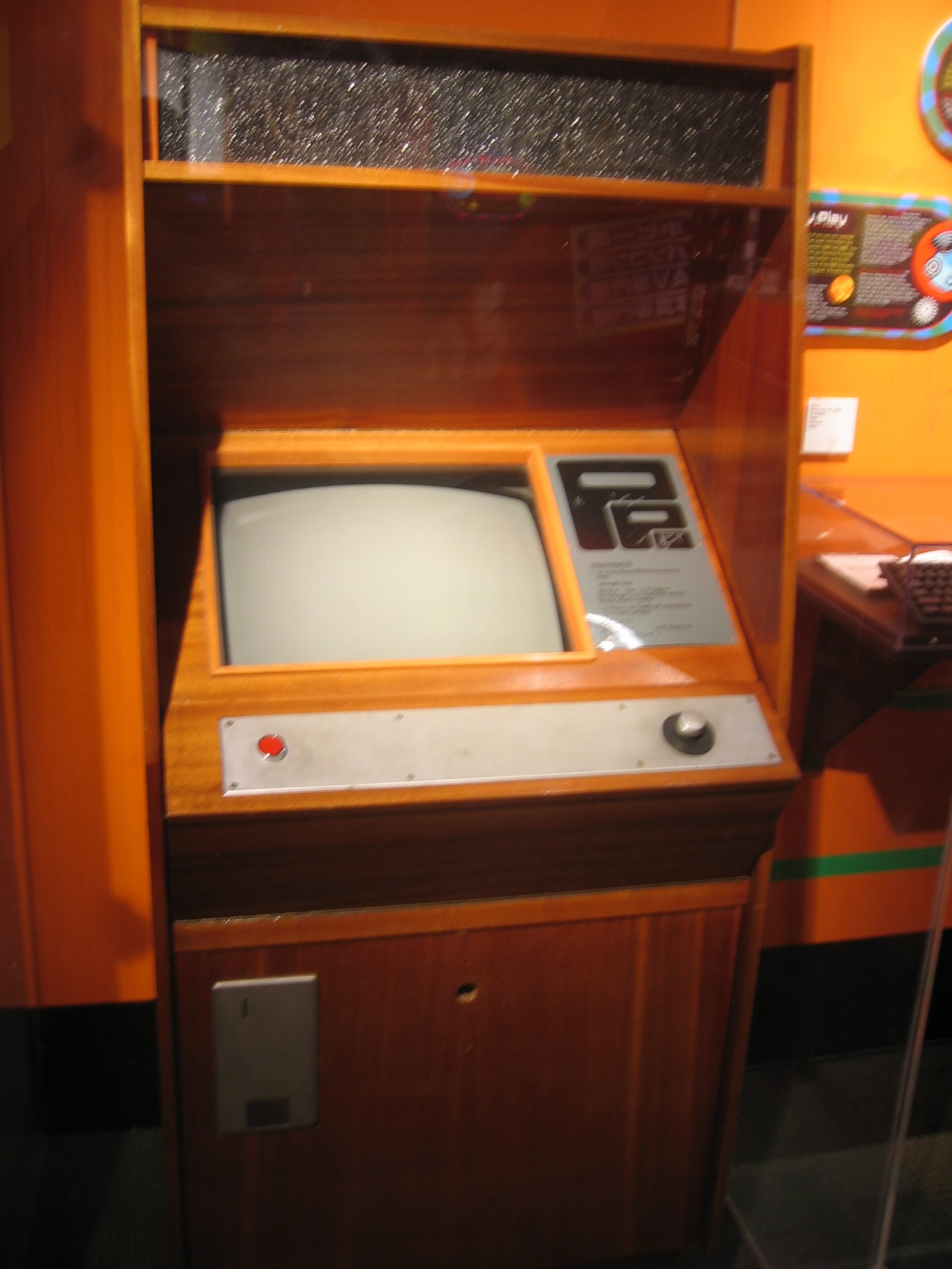 The Poly-Play (also Polyplay or Poly Play), an arcade cabinet with maximum 8 or 10 games, which was developed in the GDR (East Germany) by the VEB Polytechnik Karl-Marx-Stadt. First version released in 1985 or 1986. This is a model of the ESC2 line, which has improved electronics and construction. It was exposed at the "Game On" exhibition in the American Museum of Science and Industry (Chicago).Soviet Era East German Game